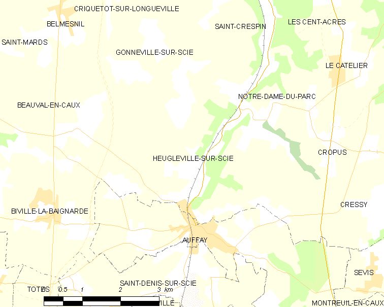 Map of French municipality Heugleville-sur-Scie